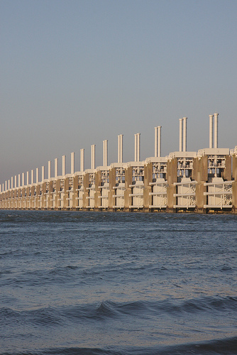 Oosterschelde Storm Surge Barrier